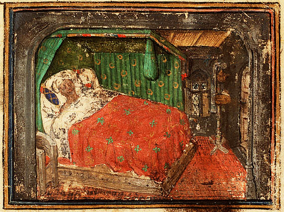 Guillaume de Lorris and Jean de Meung, Roman de la Rose Place of origin, date: France; c. 1450. Added miniature: France; c. 1400-1425 Material: Vellum, ff. 138, 280x188 mm, French. Binding: 18th-century Decoration: 1 miniature Provenance: Acquired in 1807 with the collection of J. Romswinckel